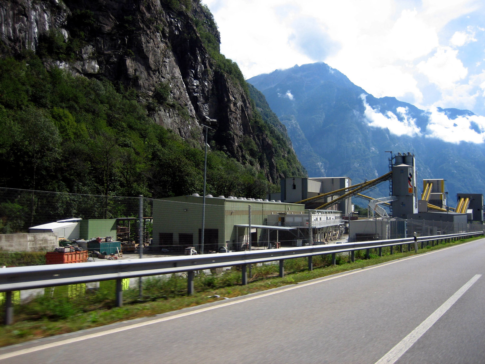 Construction site for the most southern part of the Gotthard Base Tunnel; between Bodio and Pollegio, Canton Ticino, Switzerland. Southern entrance to the base tunnel is nearby. The view is towards Pollegio.